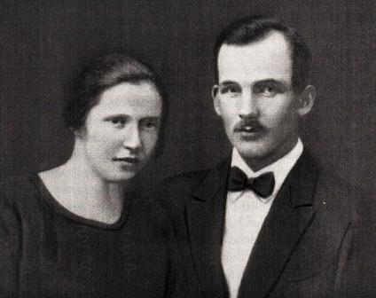 Finnish Social Democrat Onni Happonen (1898–1930) murdered by the fascist Lapua Movement with his fiancé Saimi in 1926.